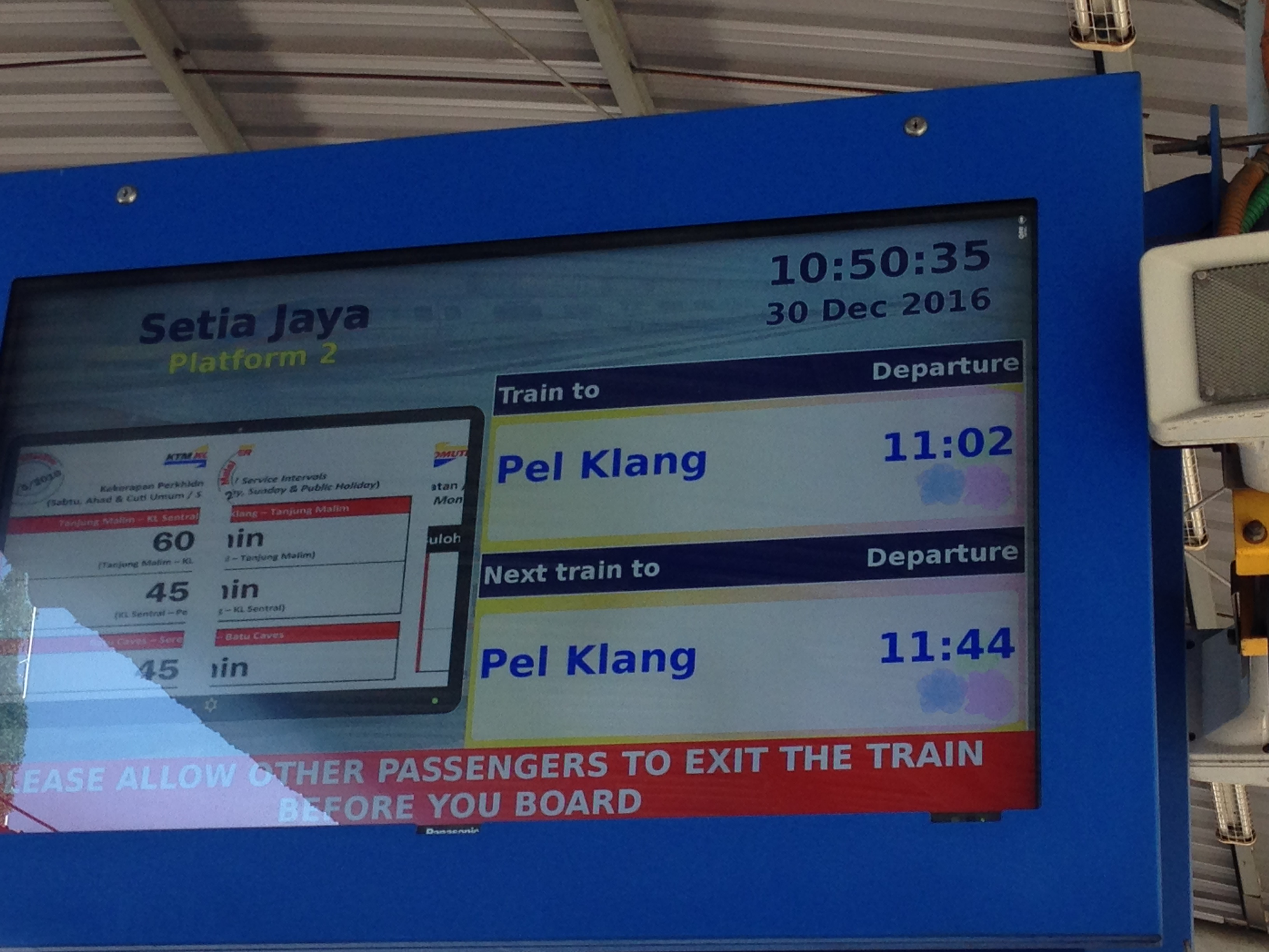 KTM Komuter passenger information display system (PIDS) at Setia Jaya station.